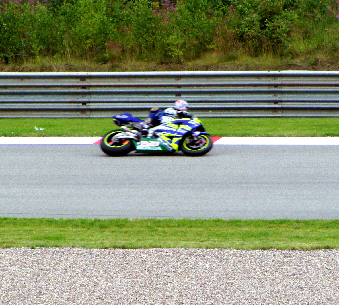 Colin Edwards in 2004